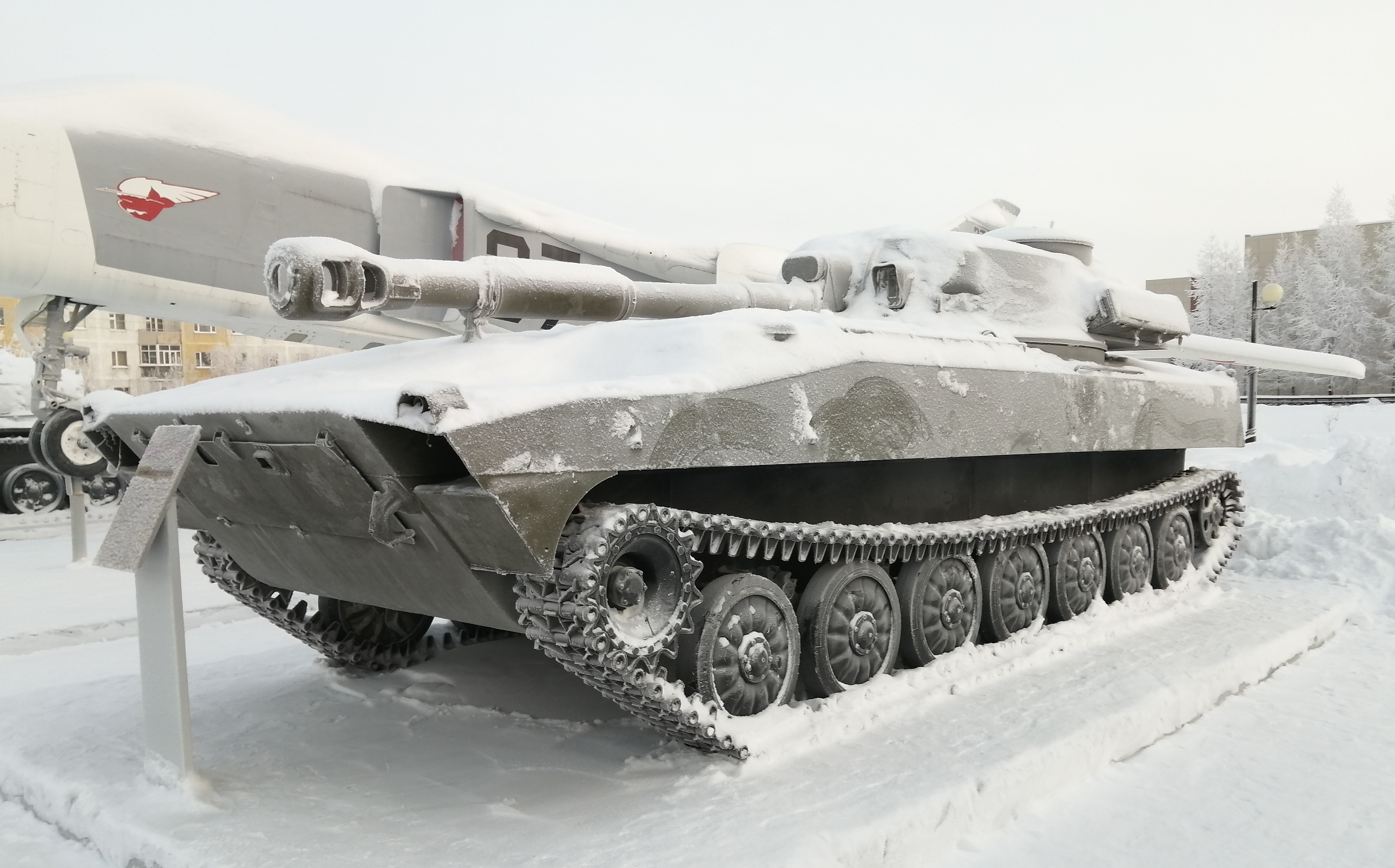 2S1 Gvozdika in the city of Novy Urengoy in the square of Memory.